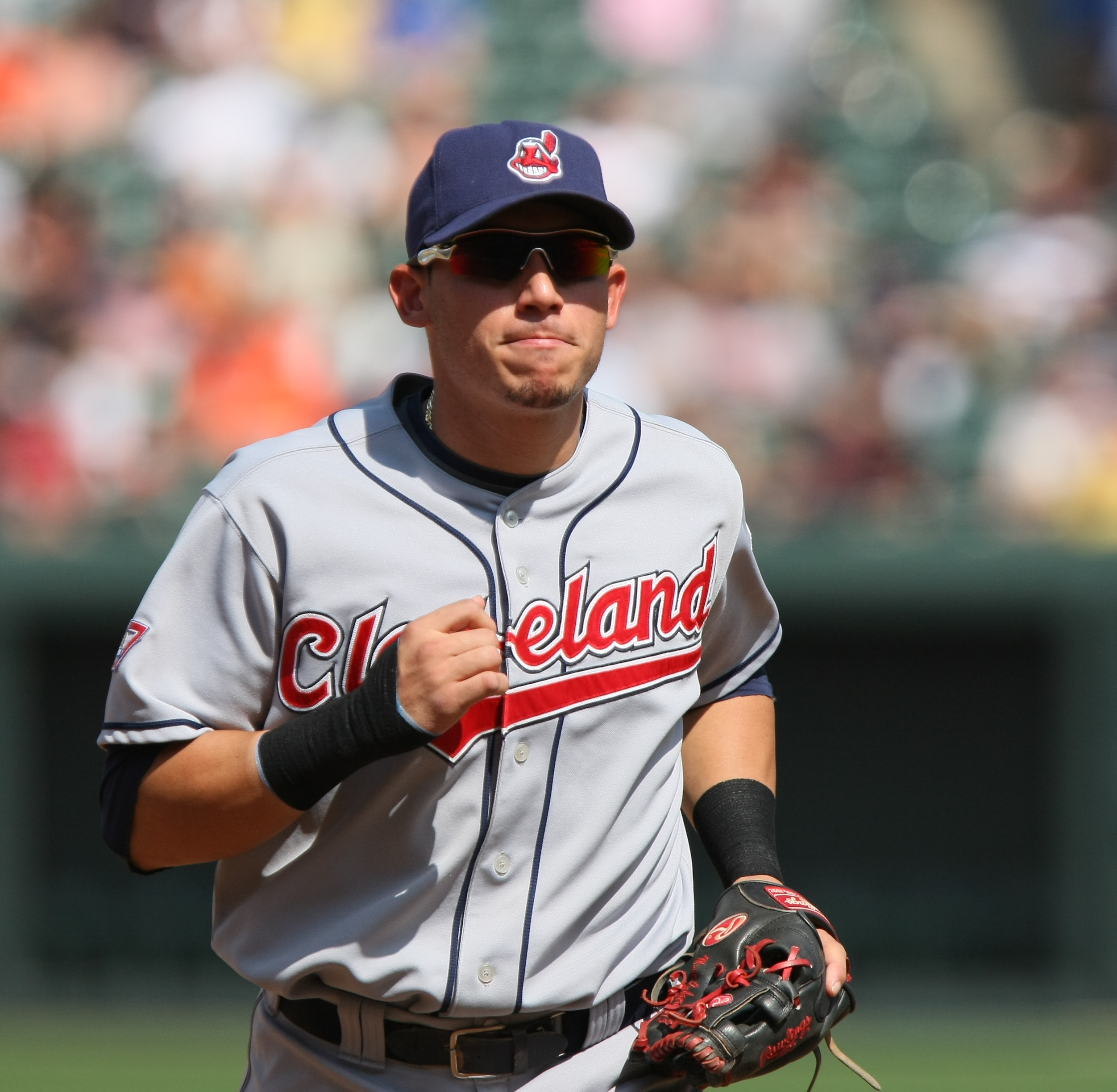 Cleveland Indians v/s Baltimore Orioles 08/30/09